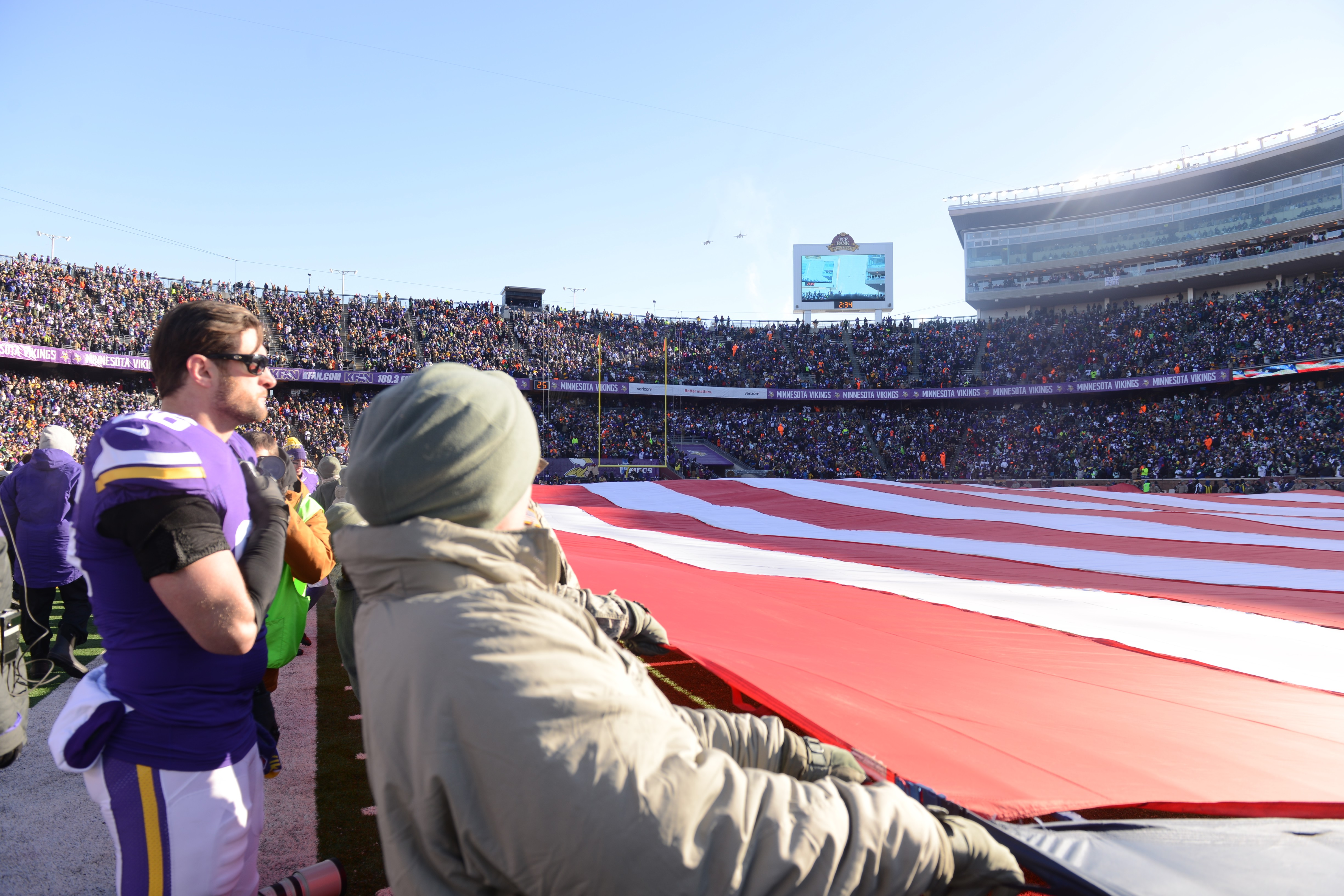 Minnesota National Guard Soldiers and Airmen present the colors during the NFL playoff game between the Minnesota Vikings and the Seattle Seahawks, Jan. 10, 2016, at TCF Bank Stadium. The Duluth-based 148th Fighter Wing also provided a flyover for the game. The game was one of the coldest games in NFL history and is likely the last outdoor home game for the Vikings as they will move into a new indoor stadium next season.